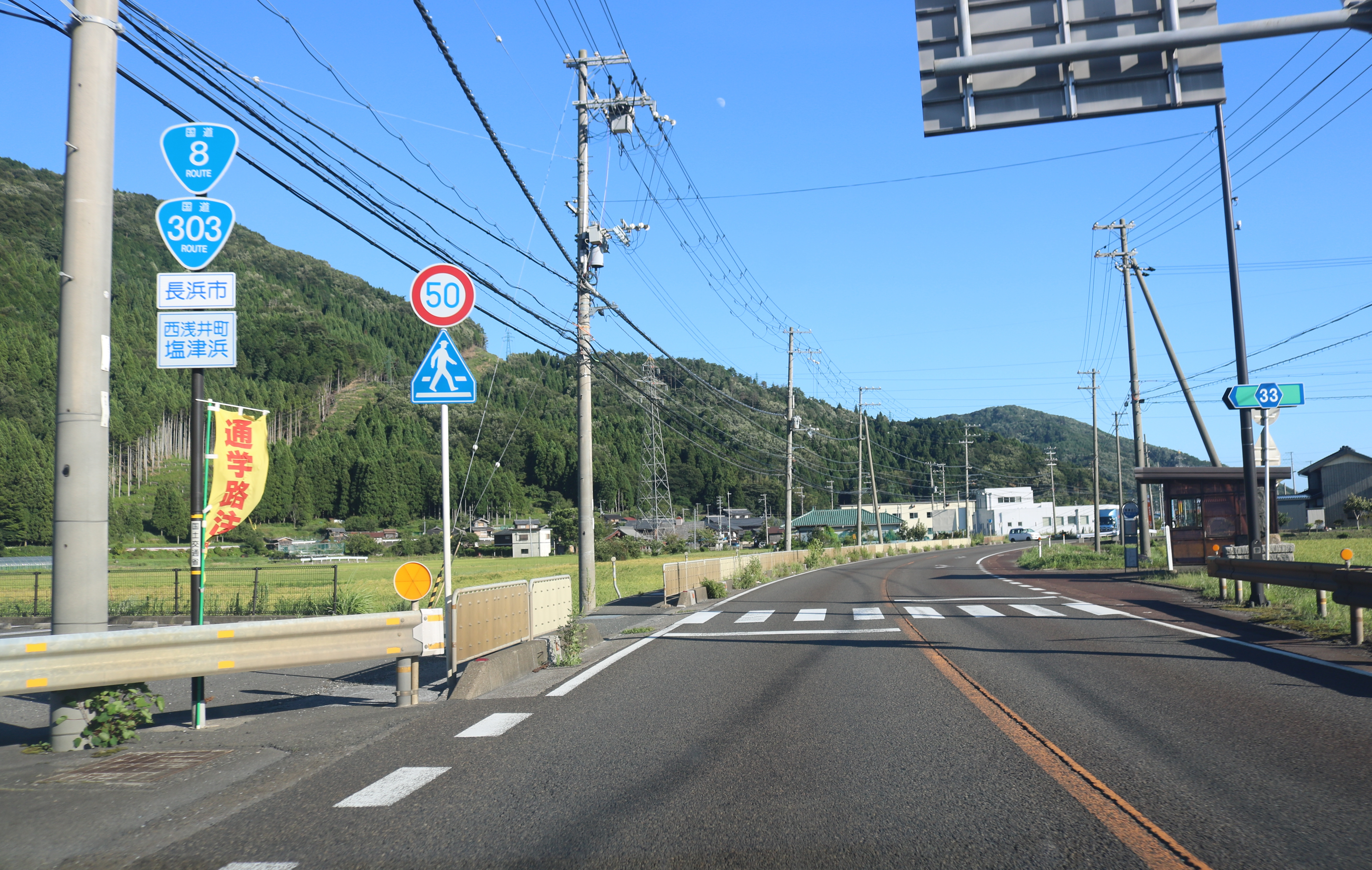 Route 8, Route 303 and Shiga Prefectural Road Route 33 in Shiotsuhama, Nishiazaicho, Nagahama, Shiga Prefecture, Japan.